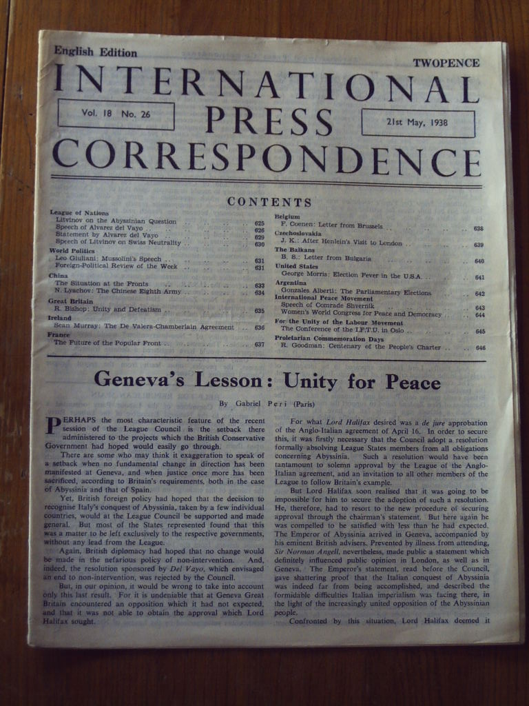 foto of a copie of the journal "International Press Correspondence/Inprecor"/Foto von einer Ausgaben der Zeitschrift "International Press Correspondence/Inprecor"